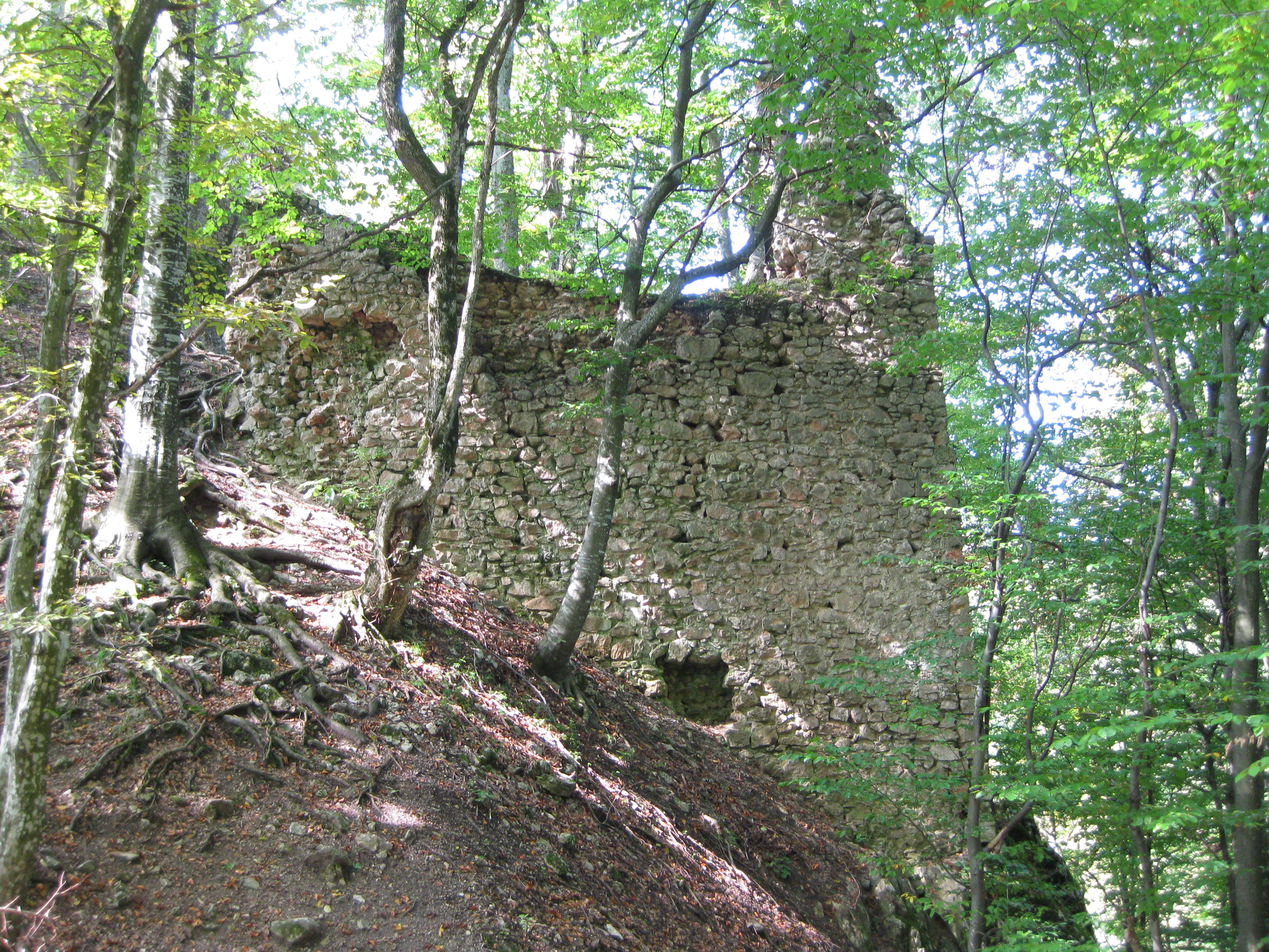 "Eagle Rock" Citadel - Western Part - Sinteu, RomaniaRomână: Ruinele cetății Șinteu "Piatra Șoimului" - Latura Vestică